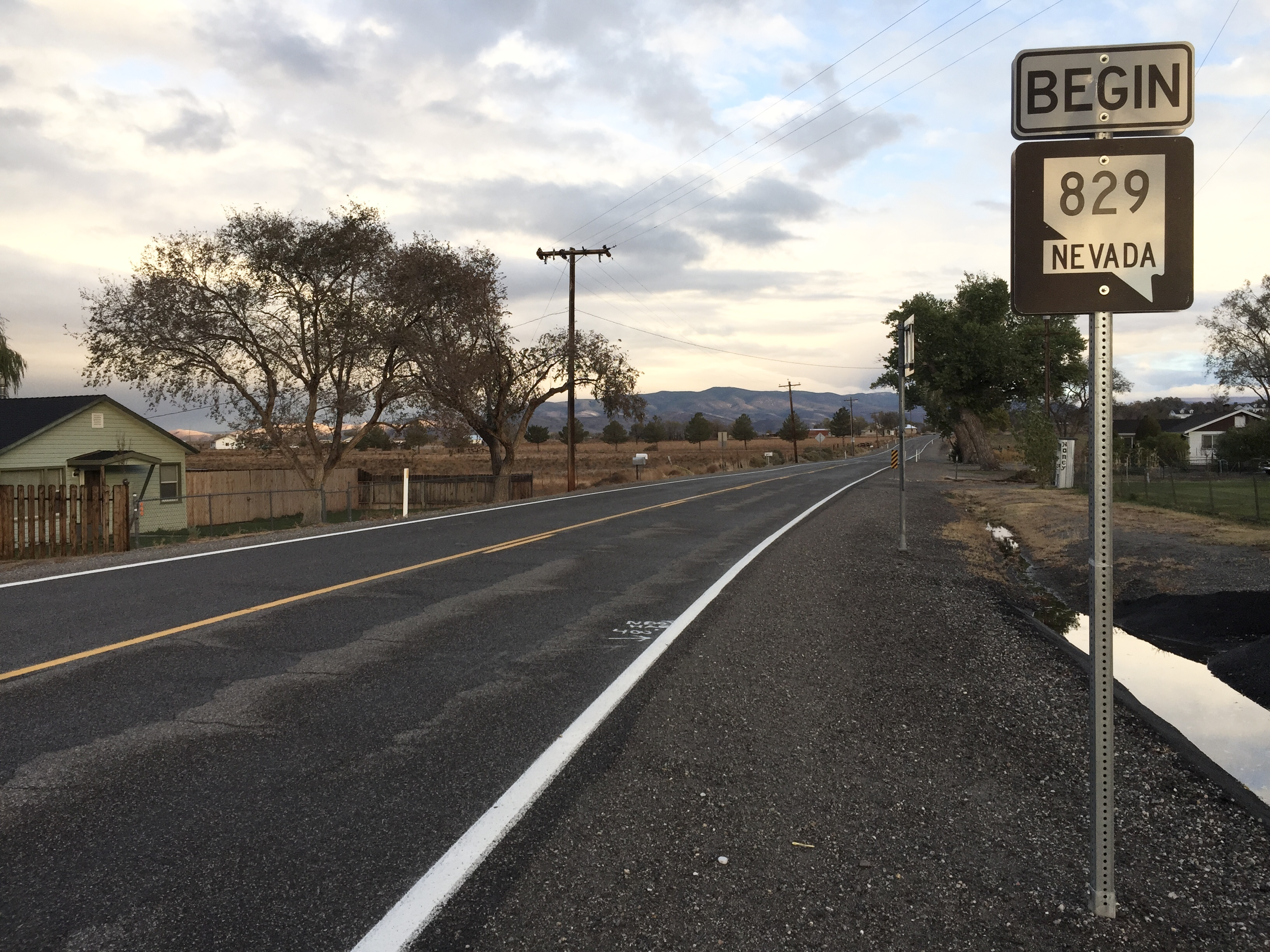 View south from the north end of Nevada State Route 829 (Wellington Road) in Lyon County, Nevada